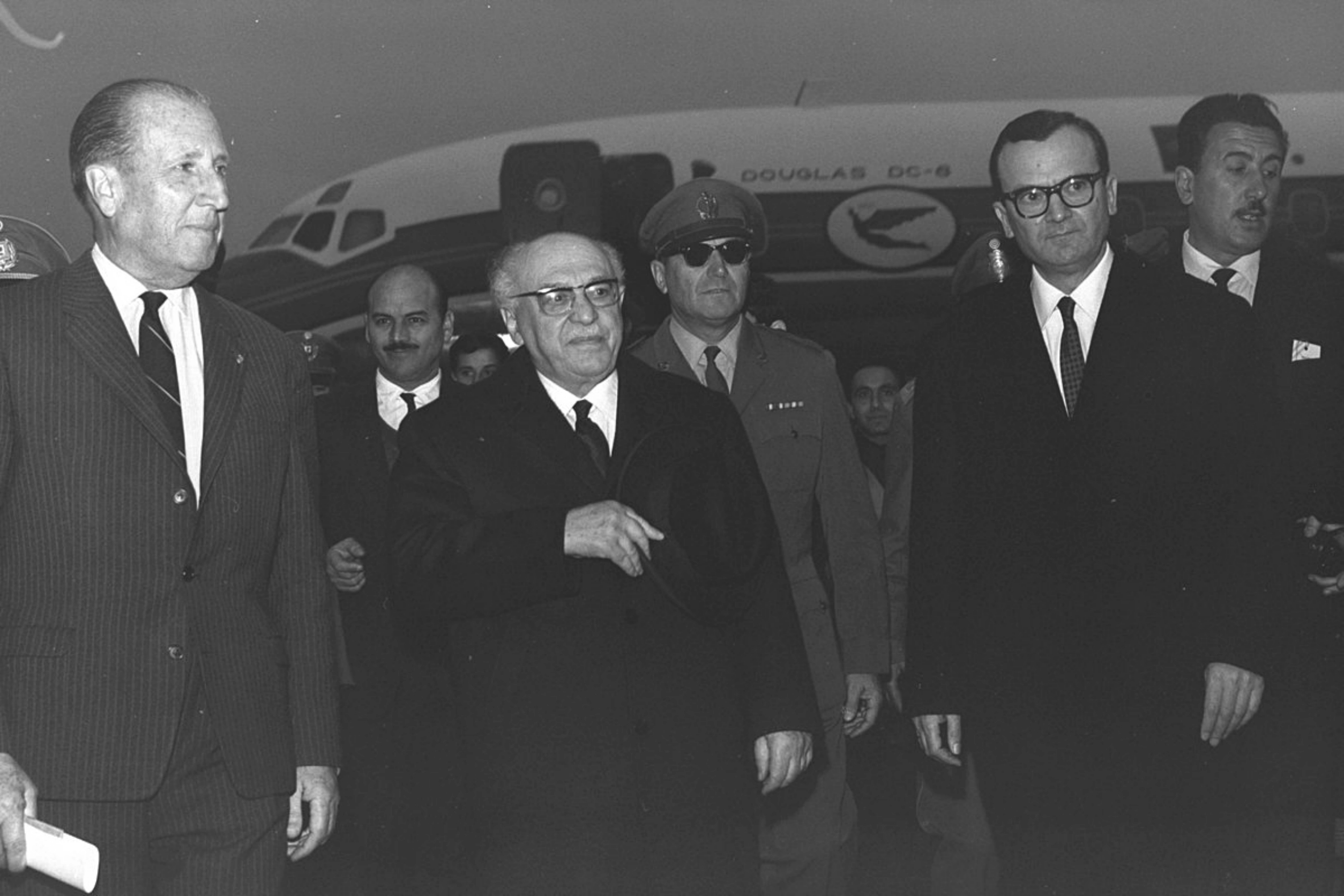 President Zalman Shazar accompanied by the Uruguay chef de protocol after his arrival at Montevideo Airport.